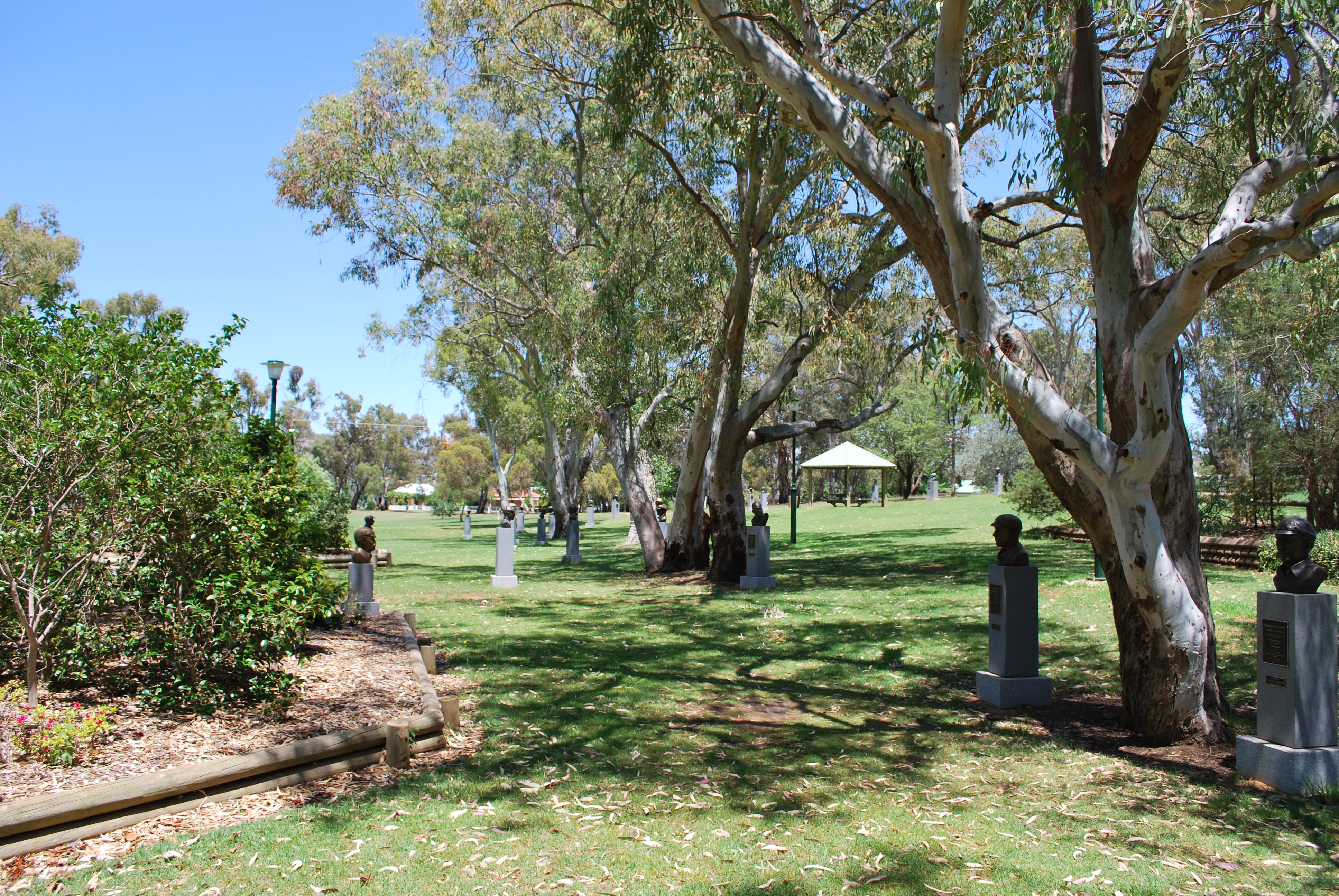 The "Captain's Walk", a series of busts commemorating the captains of Australia's Test cricket team